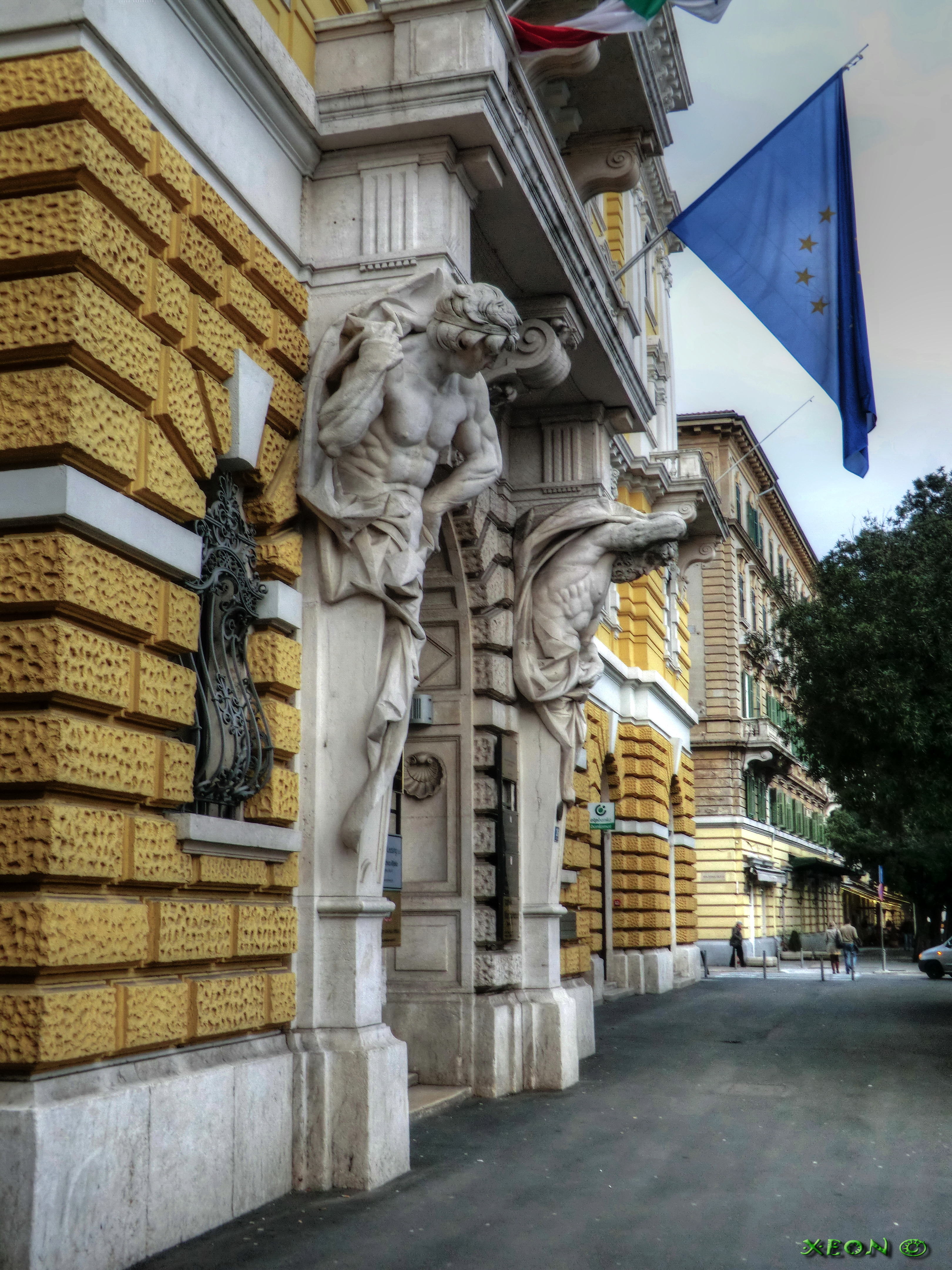 Building